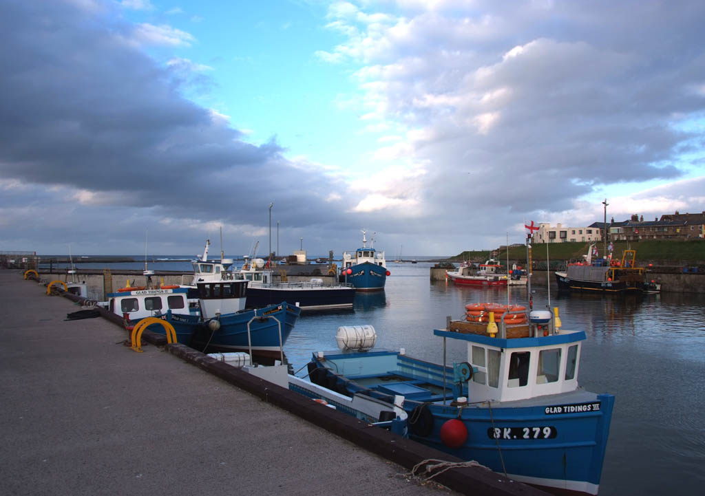 sunset at the port of Seahouses (UK)